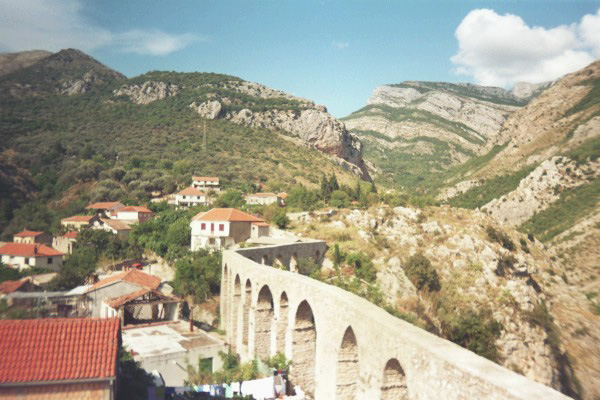 aqueduct in Stari bar (old town of Bar) Montenegro